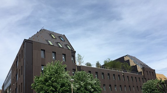 Cardo ScPo